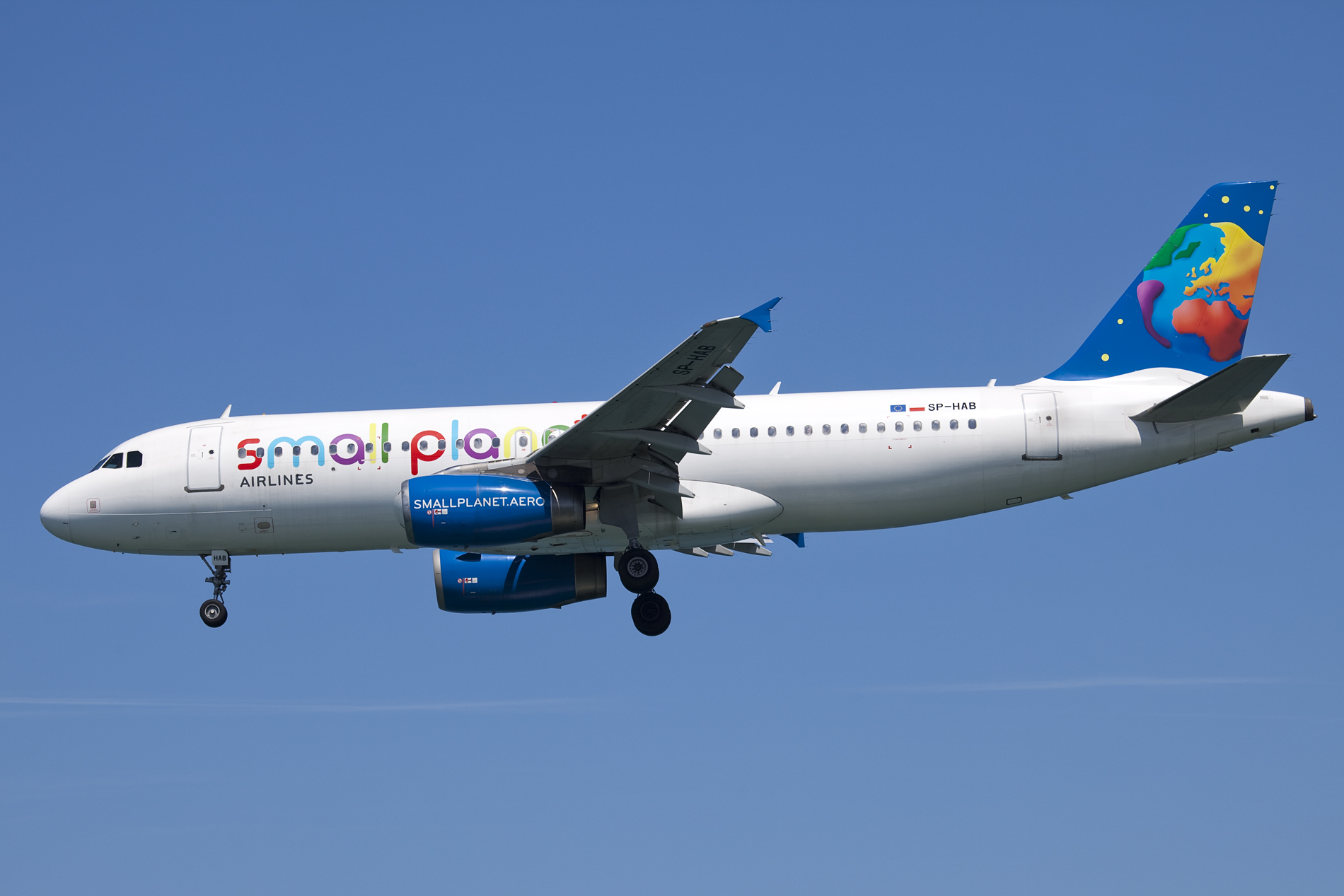 Corfu-Greece